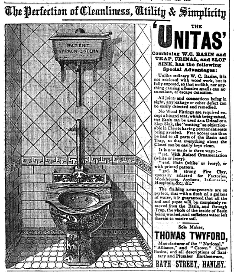 An 1886 ad depicting the relatively modern toilet bowl arrangement